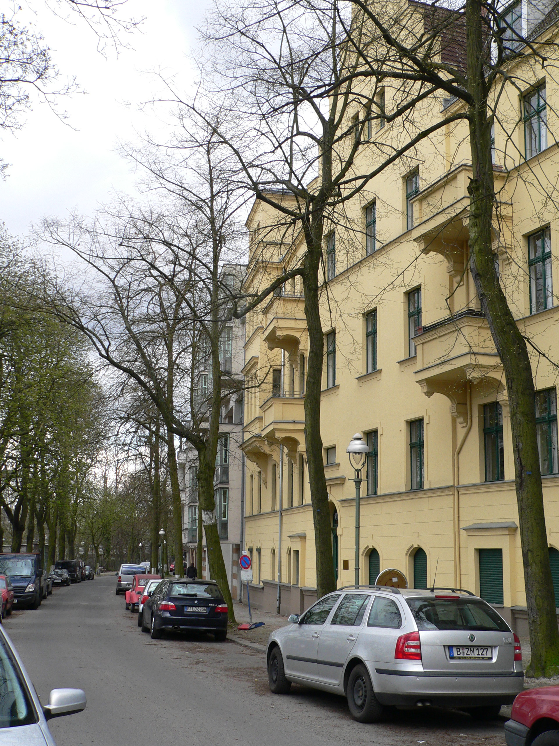 Berlin-Halensee Bornstedter Straße